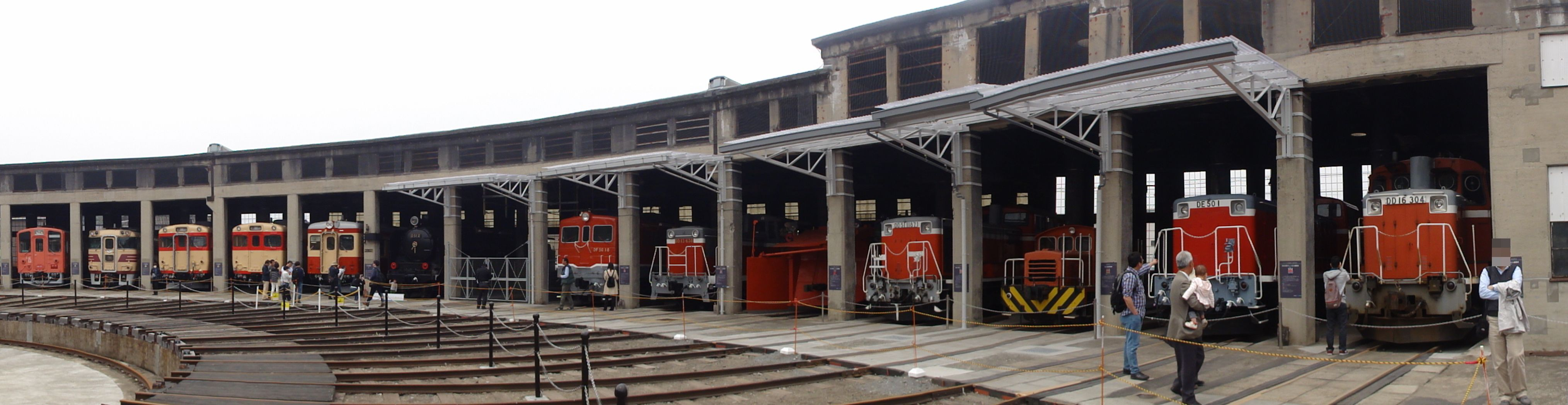 The roundhouses and preserved rolling stock at the Tsuyama Railroad Educational Museum om Okayama Prefecture, Japan